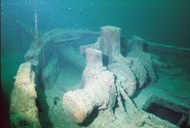 Windlass of the wreck of the schooner Northerner in Lake Michigan